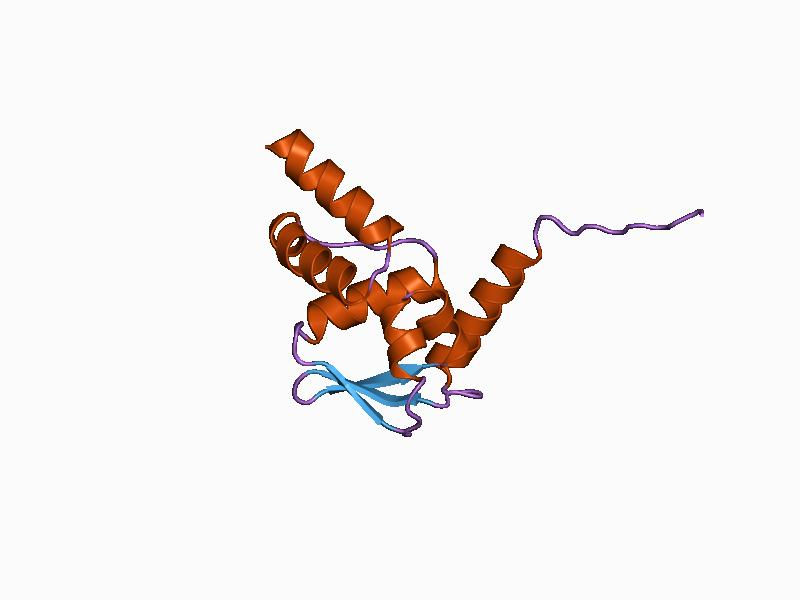 Cartoon representation of the molecular structure of protein registered with 1buo code.